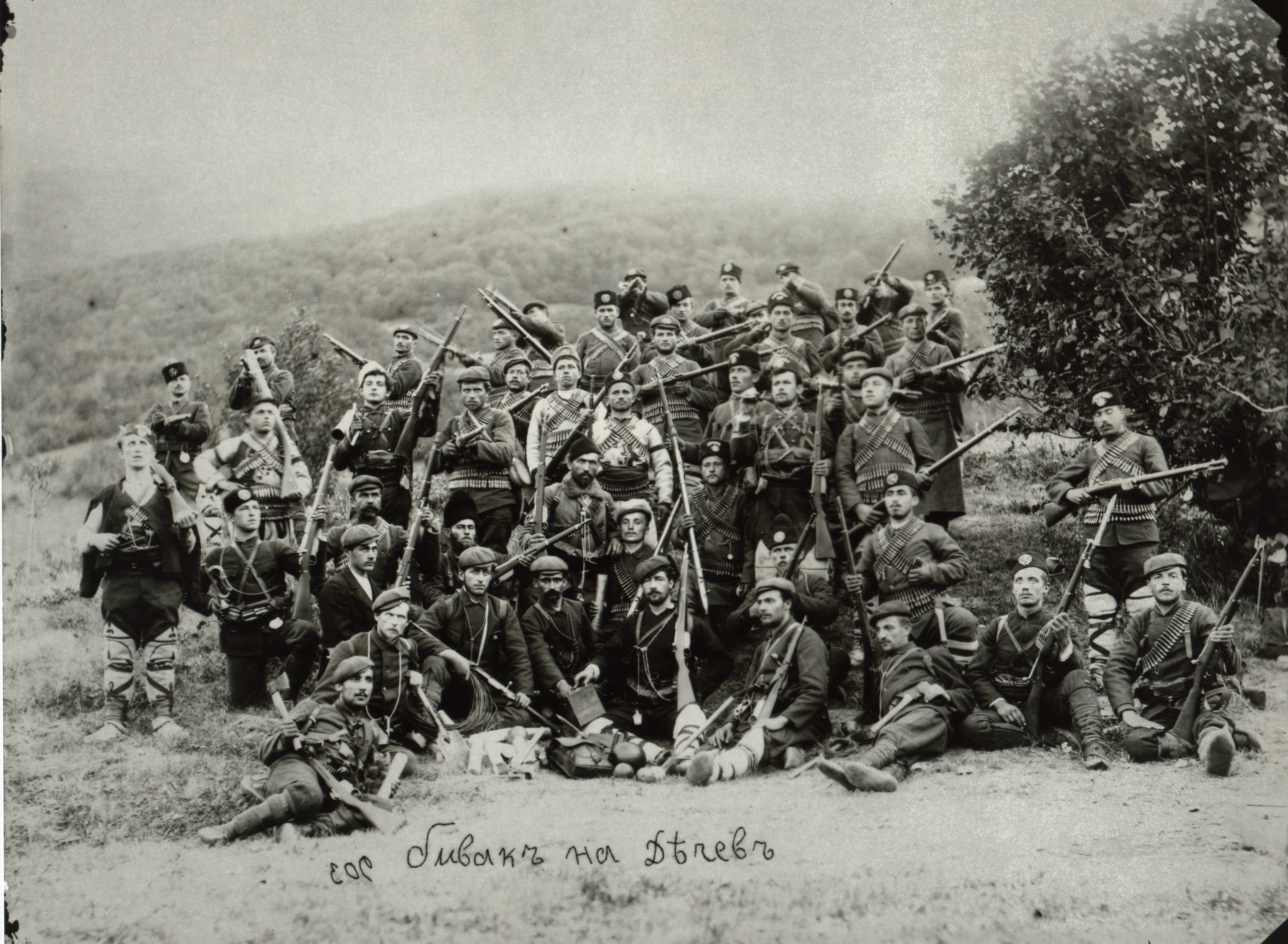 Тhird Veles cheta of Nikola Dechev